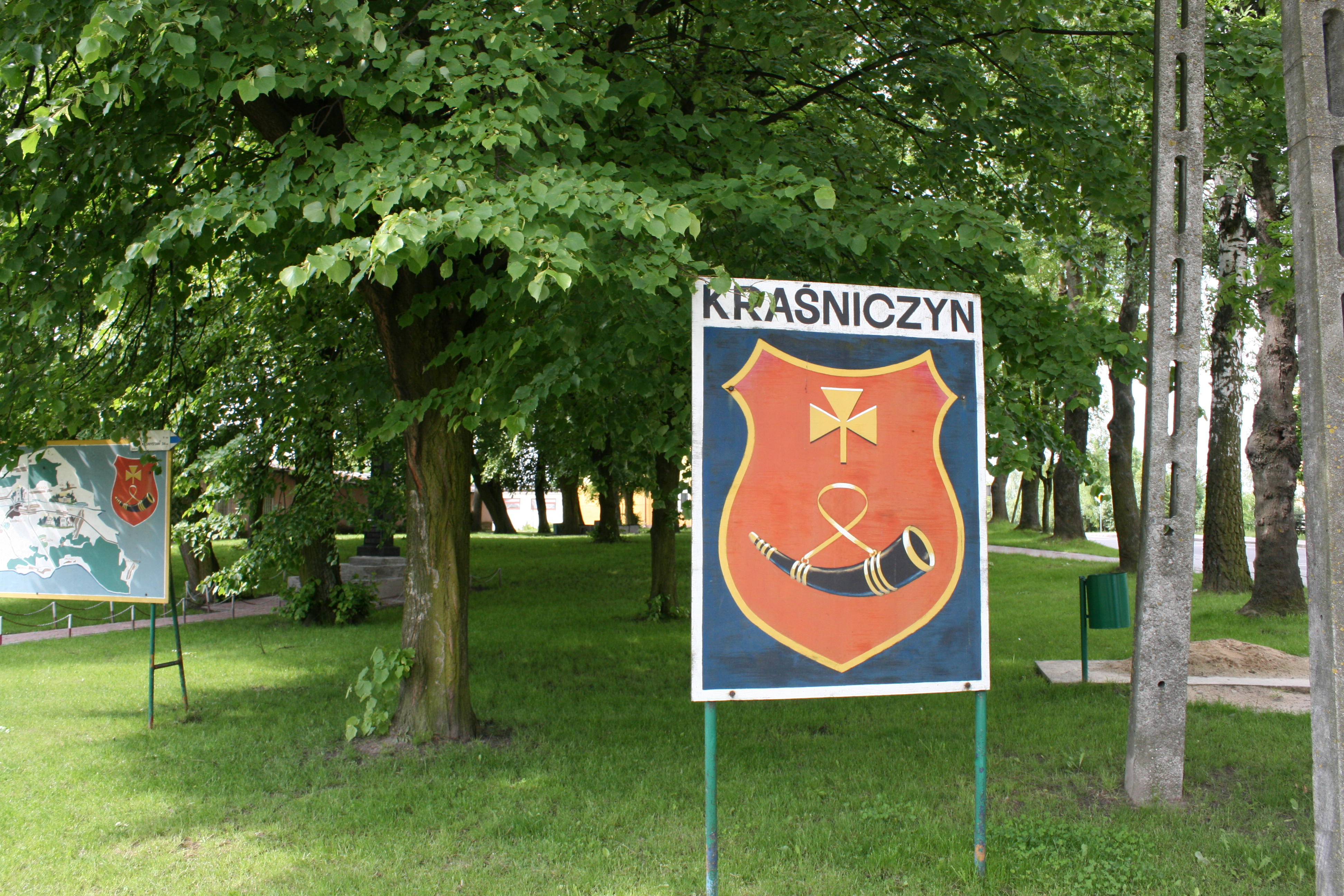 Market square in Kraśniczyn, Poland